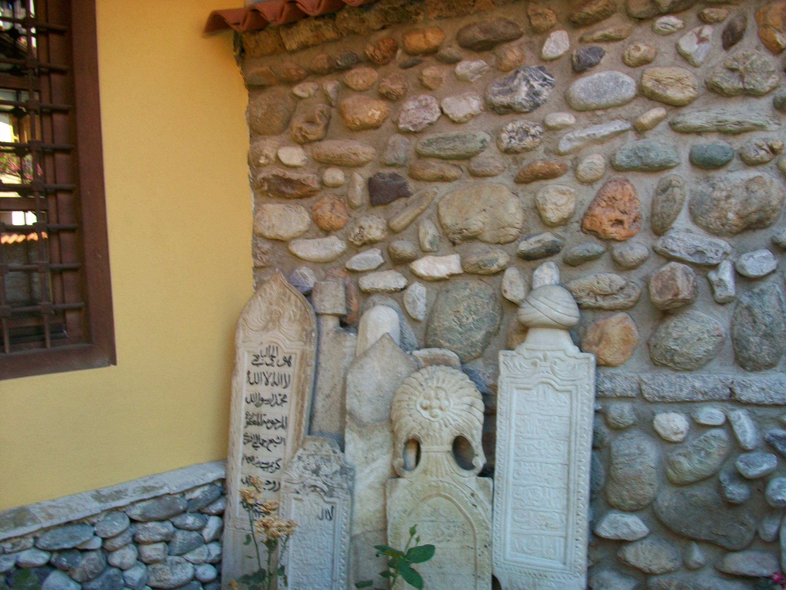 Pictures from Prizren Kosovo